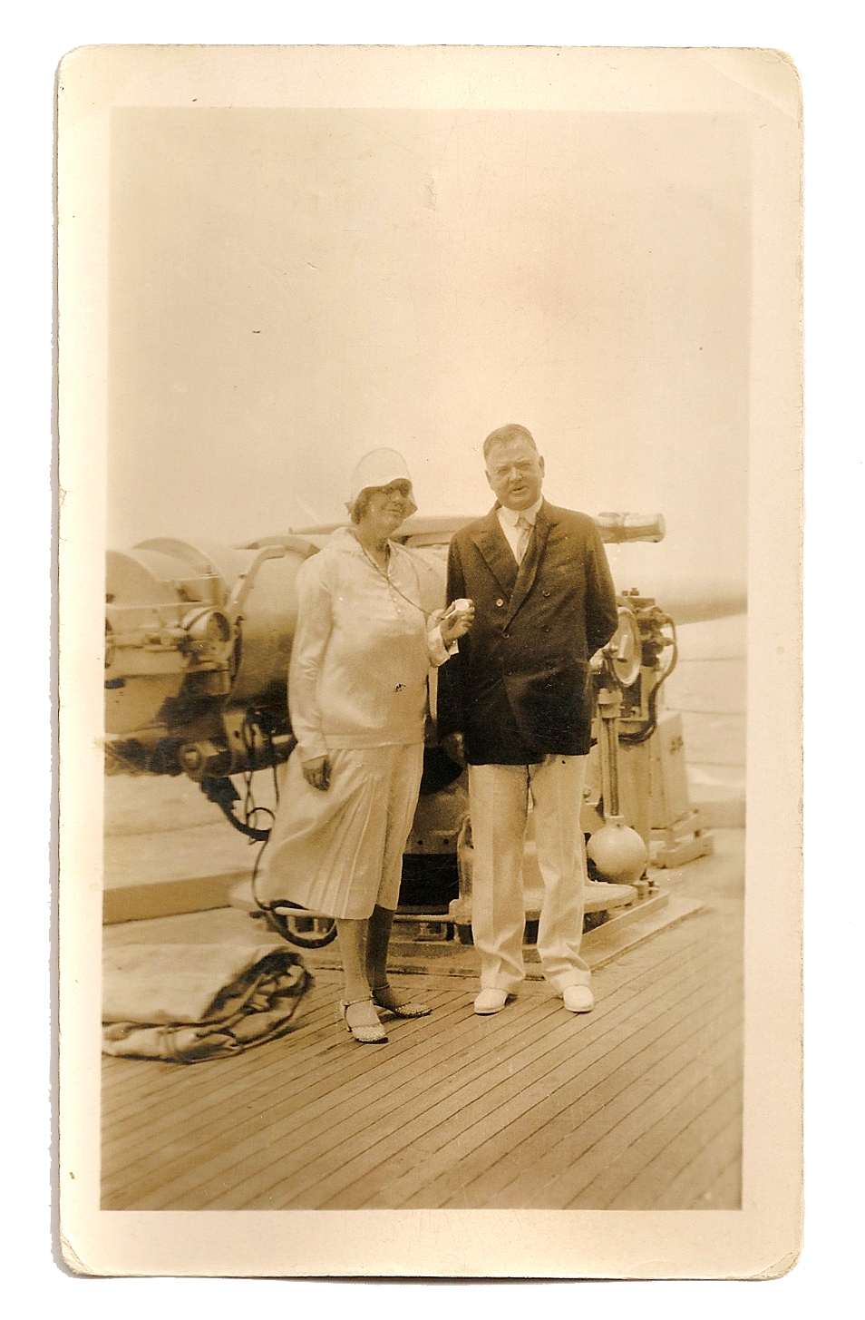 President-elect, Herbert Hoover and Battleship USS Utah, 1928; President-elect Herbert Hoover with members of his staff including his wife Lou Henry Hoover and Henry T. Fletcher, ambassador to Italy; along with members of the press embarked on board the U.S. battleship for a South American good-will tour, and vessel and ships company inspection. On this trip Hoover was nearly assassinated in Argentina by a local anarchist. Hoover went on to become the 31st president of the United States. Launched in December 1909, the Battleship Utah was a Florida-class battleship weighing 21,825 tons, she was the first American battleship fitted with steam turbine engines and was armed with ten 12" guns; sixteen 5" guns and two 21" torpedo tubes. U.S. Navy Sailor, Joseph V. Sullivan, father of Martin Joseph Sullivan was a crew member on the Battleship Utah circa. 1926 - 1930. (Photos courtesy of Martin Joseph Sullivan)